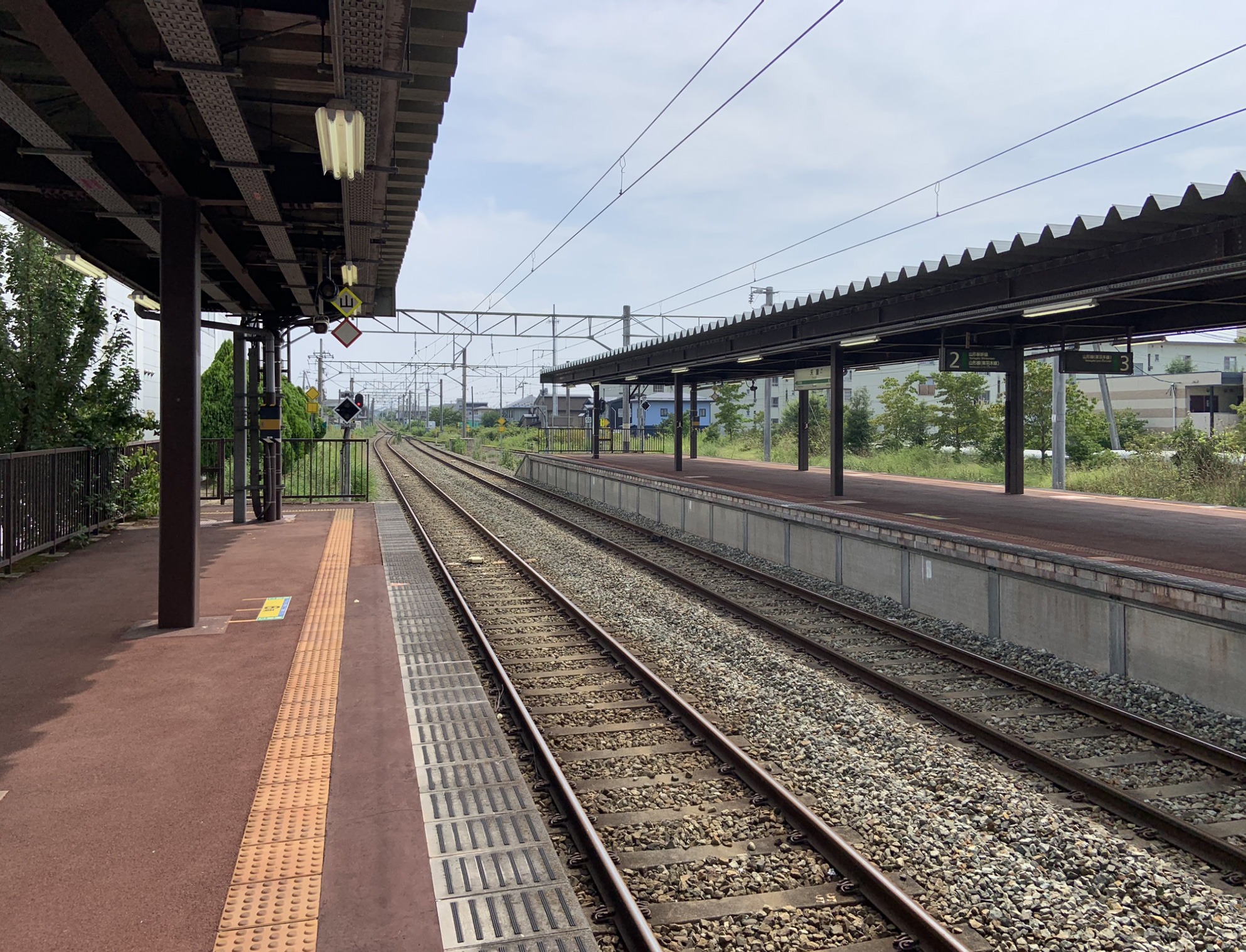 Taken on the platform of Tendō Station, Tendō City, Yamagata Prefecture, Japan. 4th August, 2019.